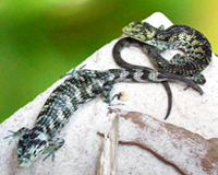 Dos ejemplares de Abronia taeniata colectados de árbol derribado en Atzingo, Zacatlan (Puebla, México), en noviembre de 2008.